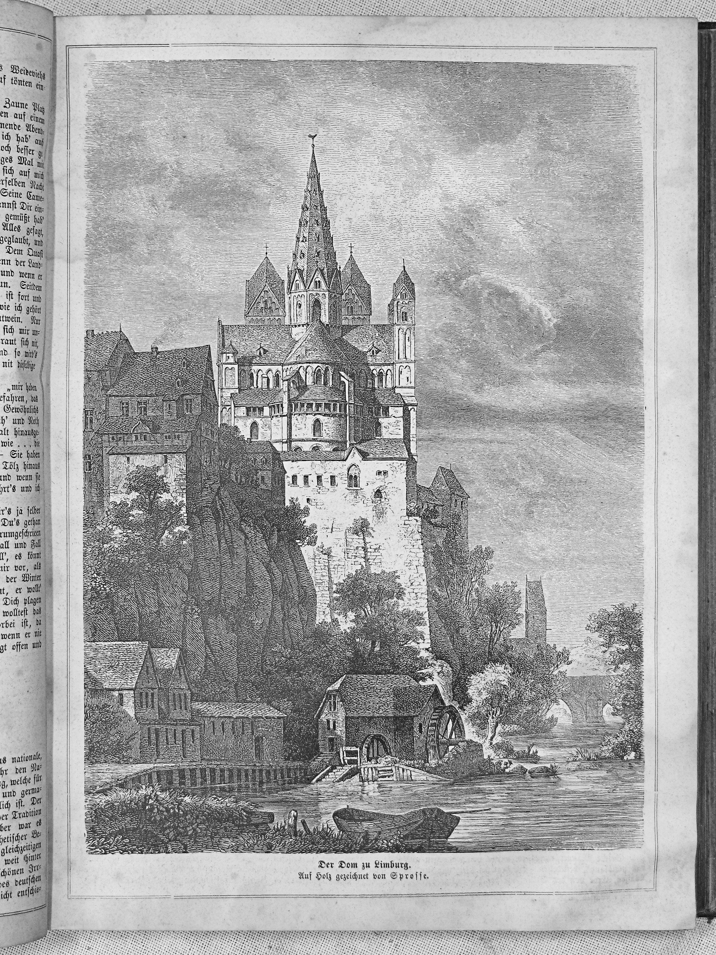 Page 245 from journal Die Gartenlaube for 1863. Extracted image (if any): File:Die Gartenlaube (1863) b 245.jpg - hi res, ~2.5 MB.